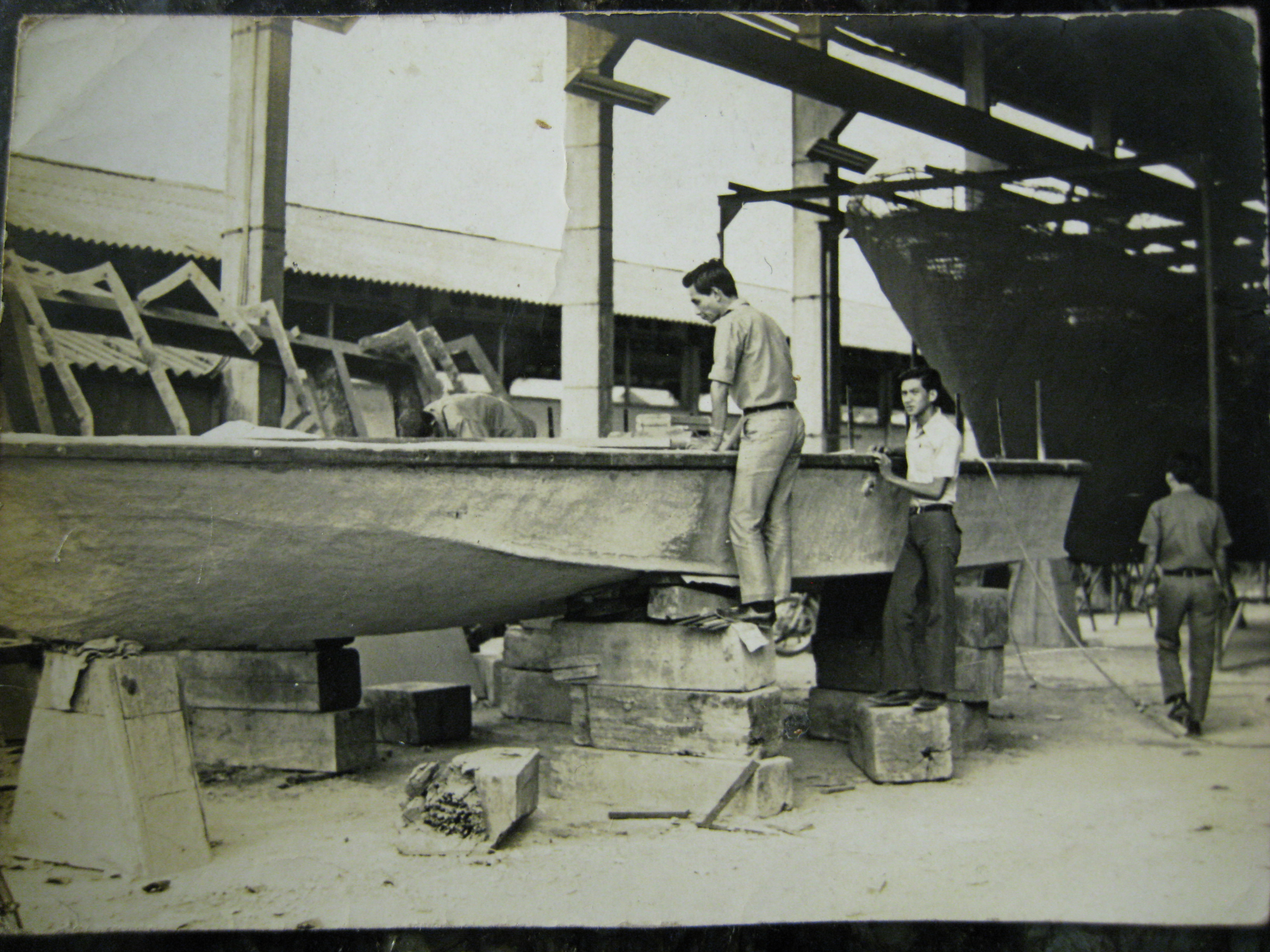 Đại úy Huỳnh Duy Thạch - Hải quân công xưởng - Chiến đỉnh Cá sấu